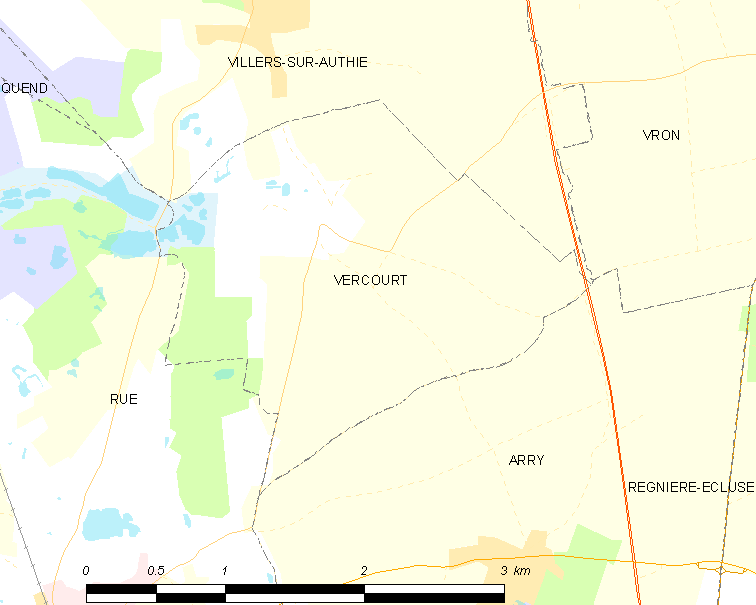 Map of French municipality Vercourt